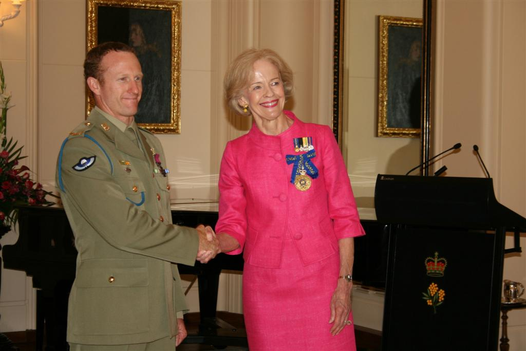 Investiture of the Victoria Cross for Australia to Trooper Mark Donaldson